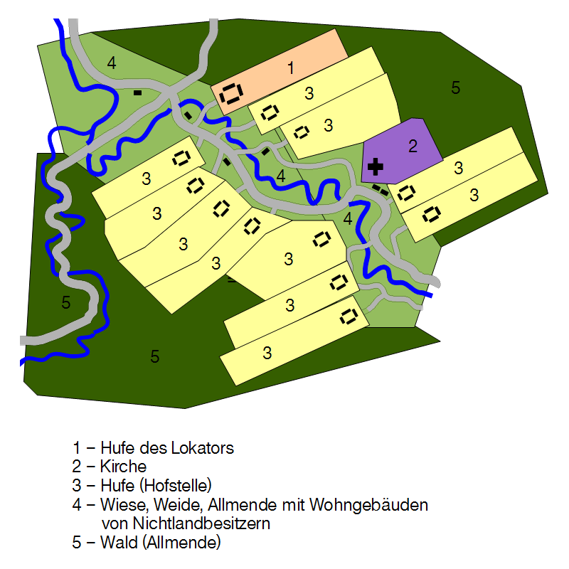 Waldhufendorf, "forest village"